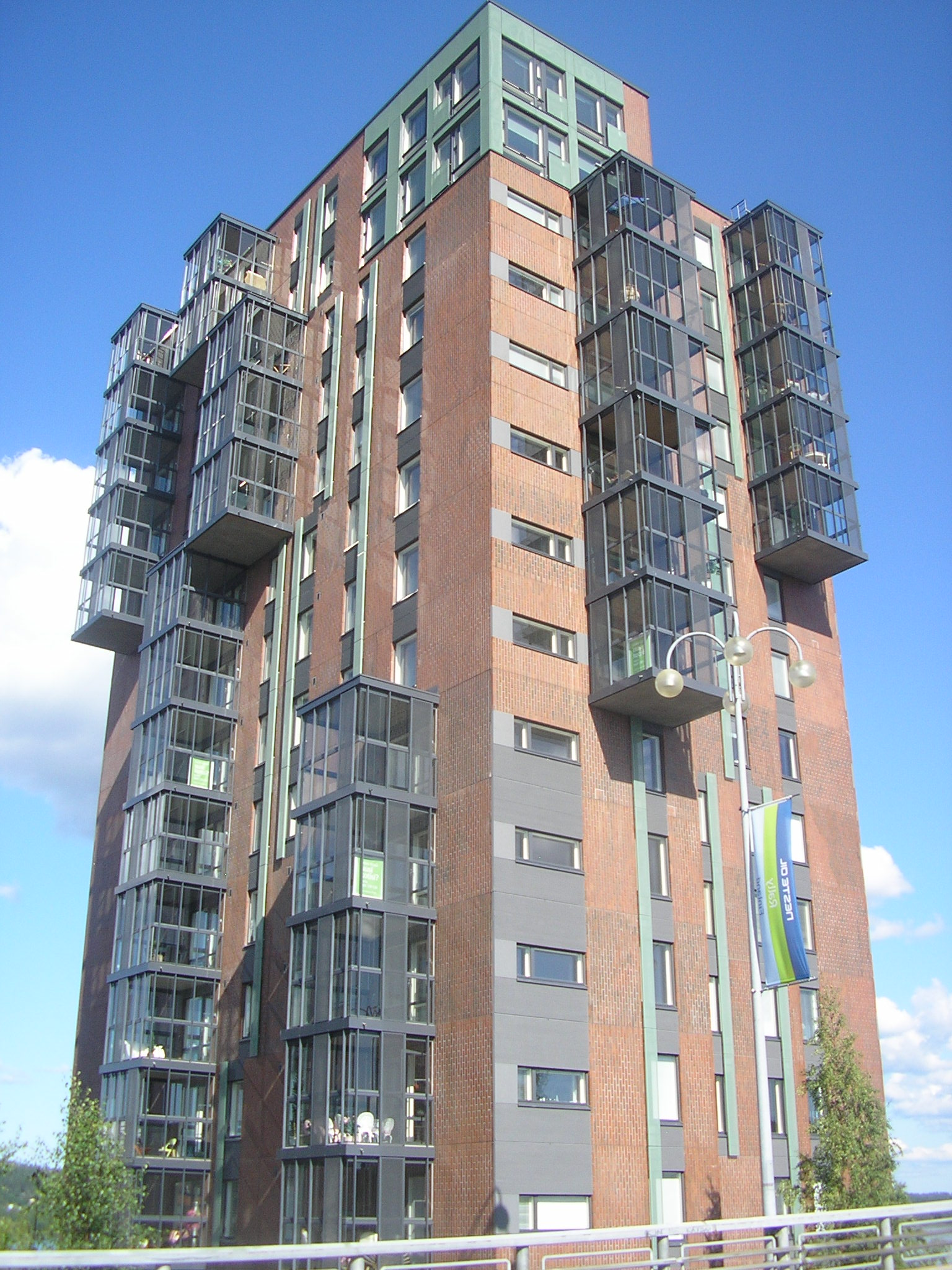 Apartment building Horisontti in Lutakko, Jyväskylä